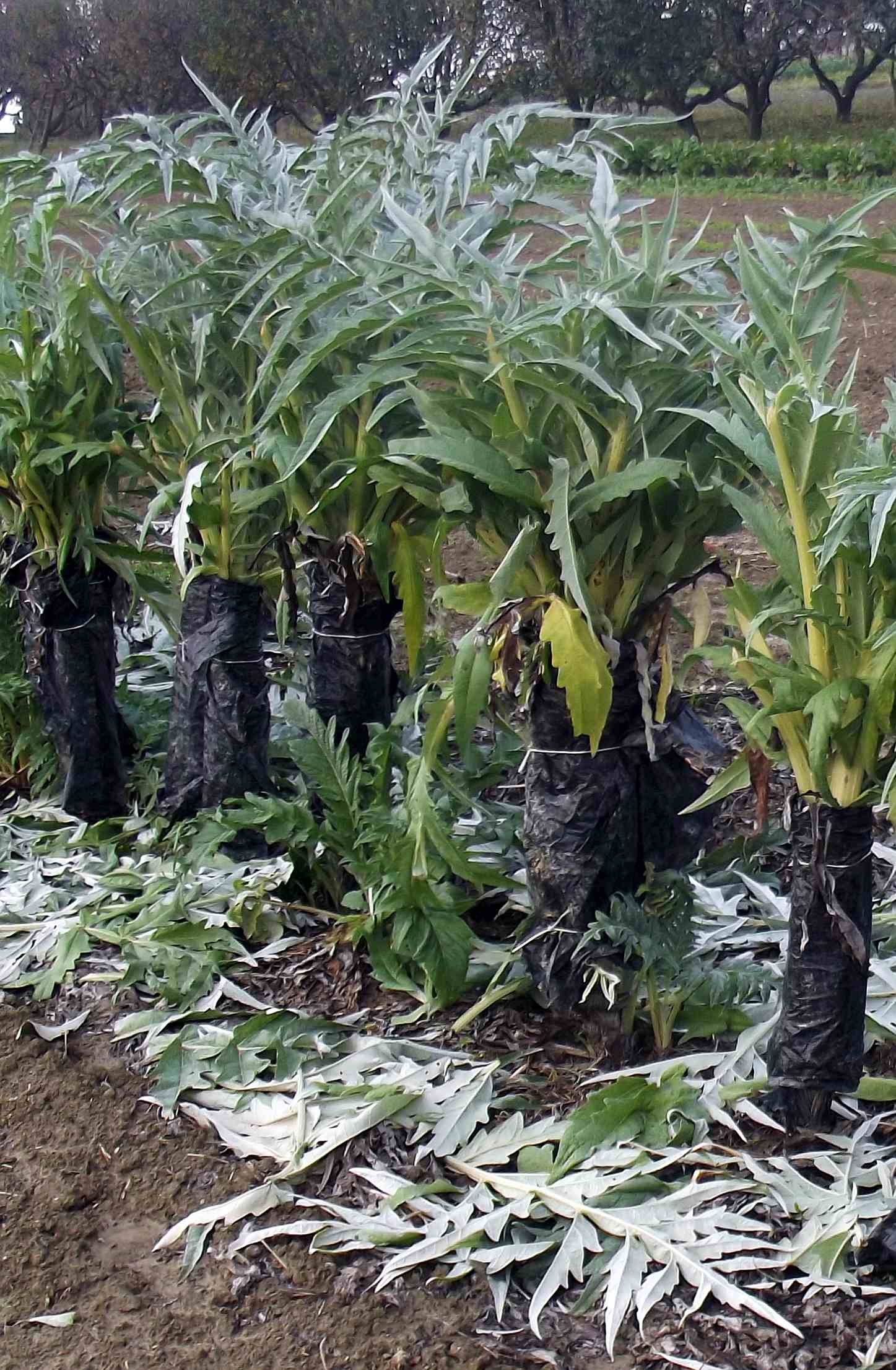 Bardassano (Gassino, TO, Italy): cultivated cardoons ( Cynara cardunculus L. var. altilis) while whitening